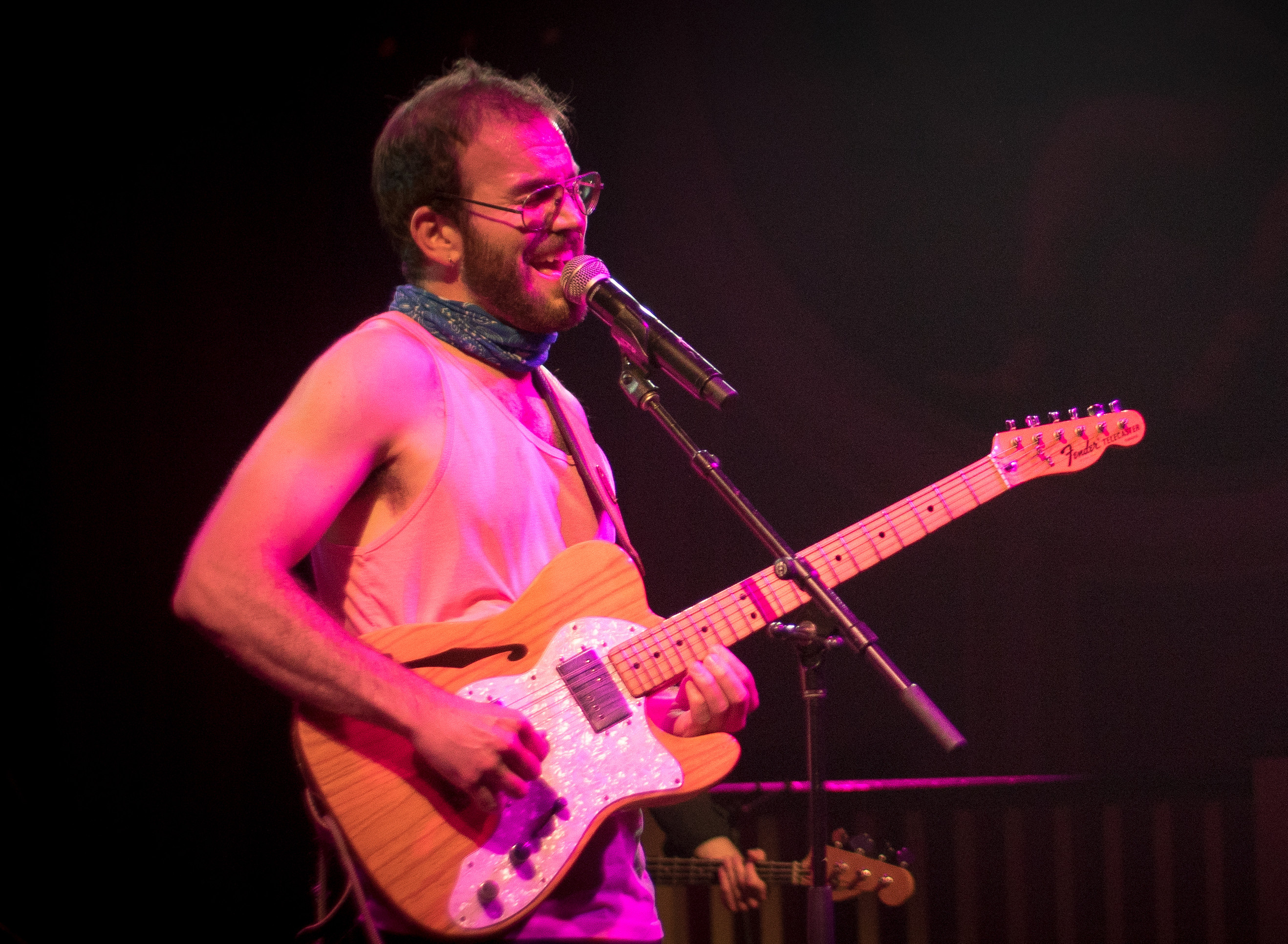 Theo Katzman performing with Vulfpeck at the Crystal Ballroom in Portland, Oregon, on May 26, 2017.[1]